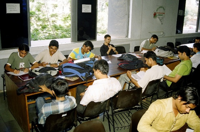 library of rizvi college of engineering.